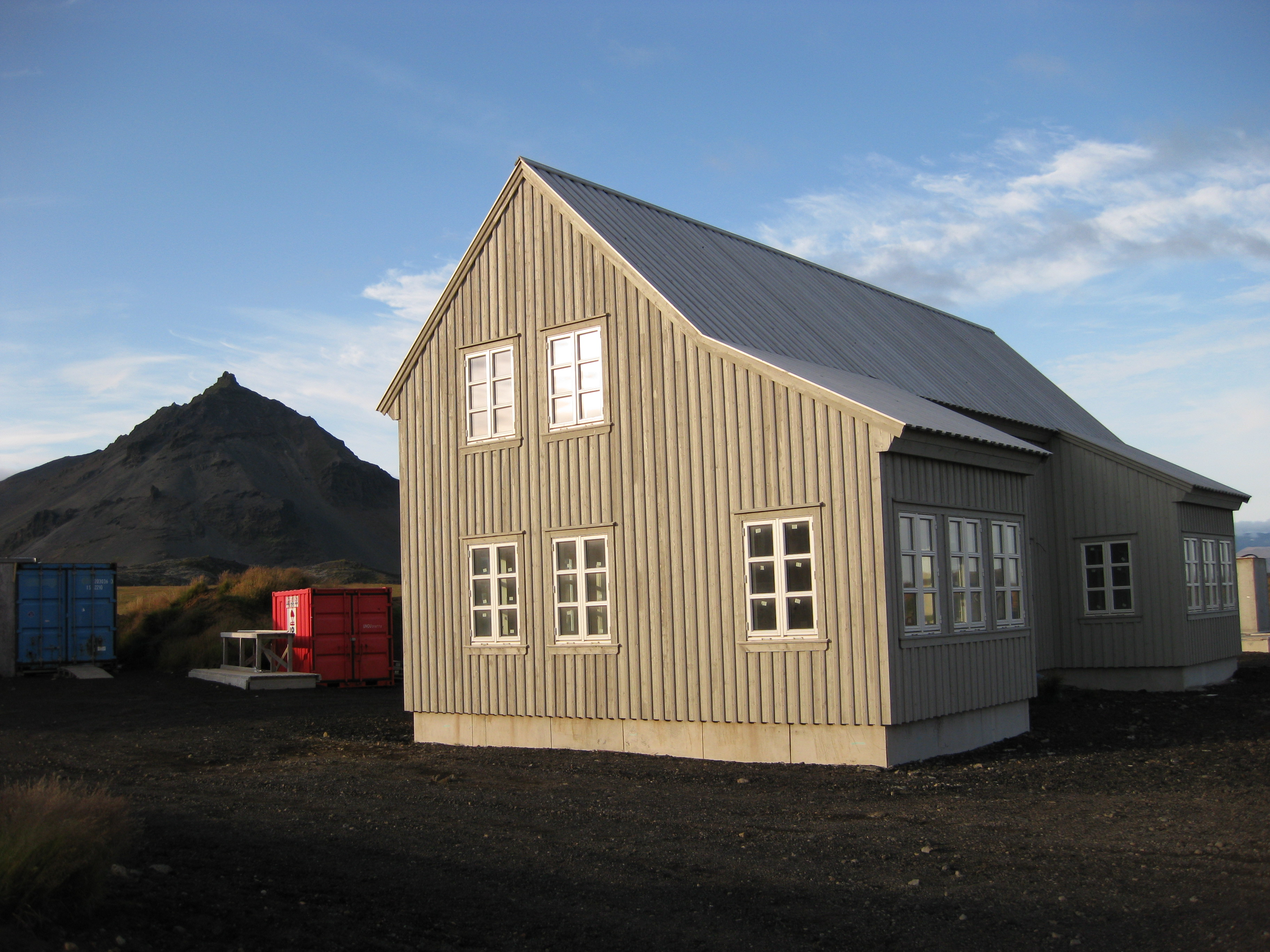 Hellnar in Snæfellsnes , Iceland. Photo by Salvor Gissurardottir in August 2008